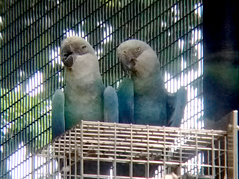 Close-up of two captive individuals of the Spix's Macaw, which is thought to be extinct in the wild. Photo taken at the Jurong Bird Park, a zoo in Singapore (a separate park of the Singapore Zoo).